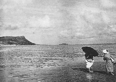 Crossing on foot between Yokatsu Peninsula and Henza Island